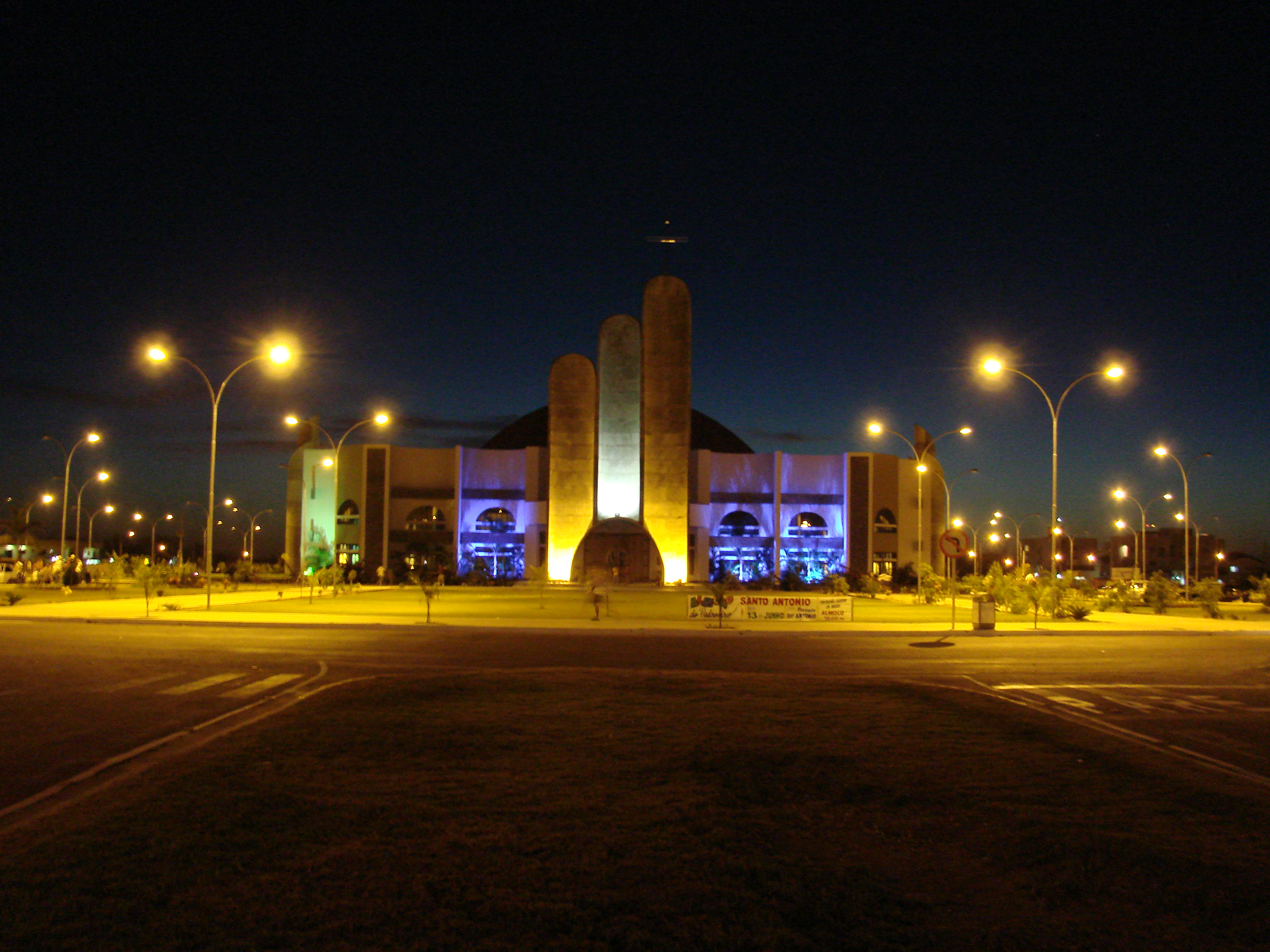 Sagrado Coração de Jesus Cathedral, Sinop, Mato Grosso, Brazil